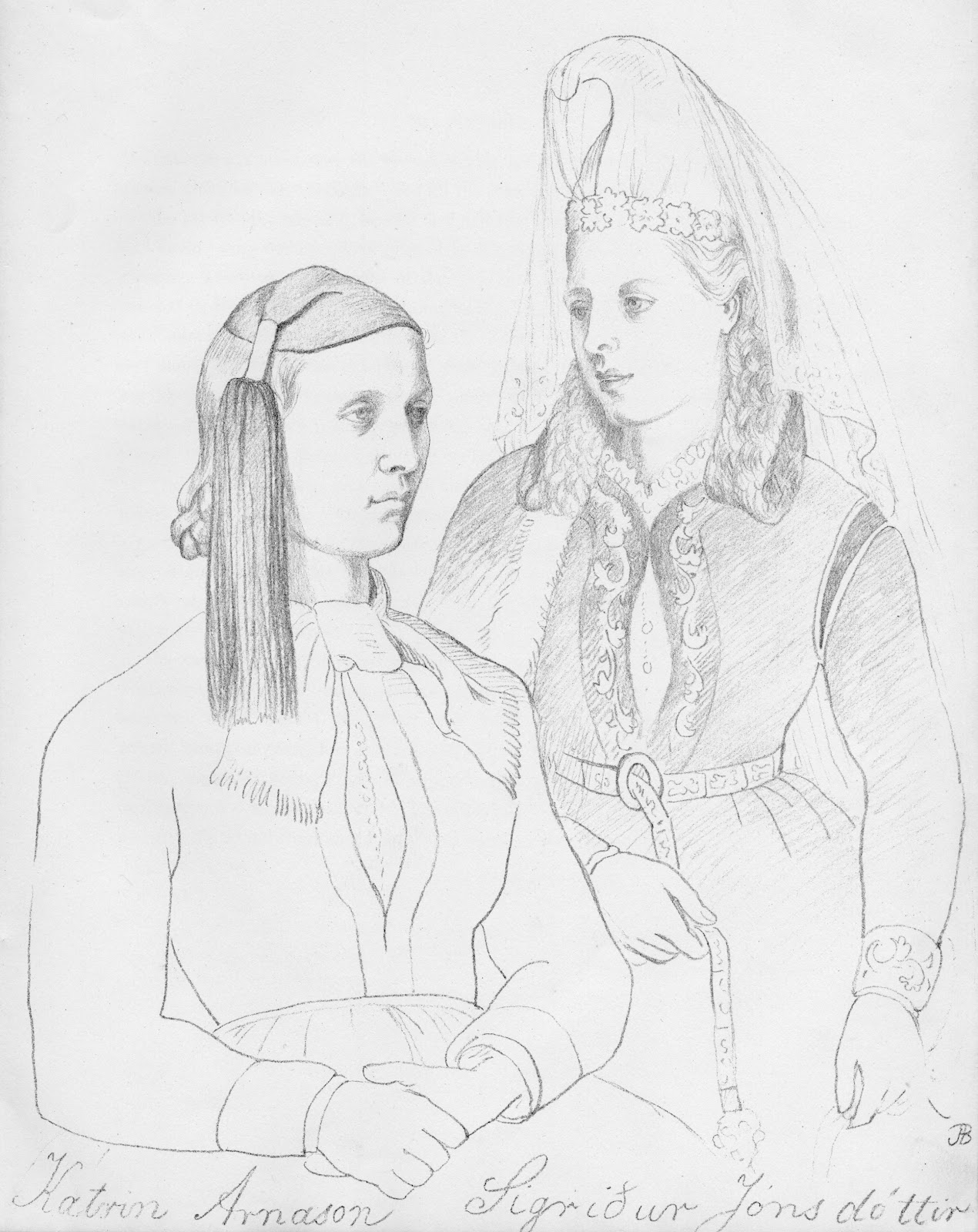 Drawing of Katrín Árnason and Sigríður Jónsdóttir wearing the Icelandic national costume. The drawing was made by Jemima Blackburn in the summer of 1878. Published in "How the Mastiffs Went to Iceland" in that same year.